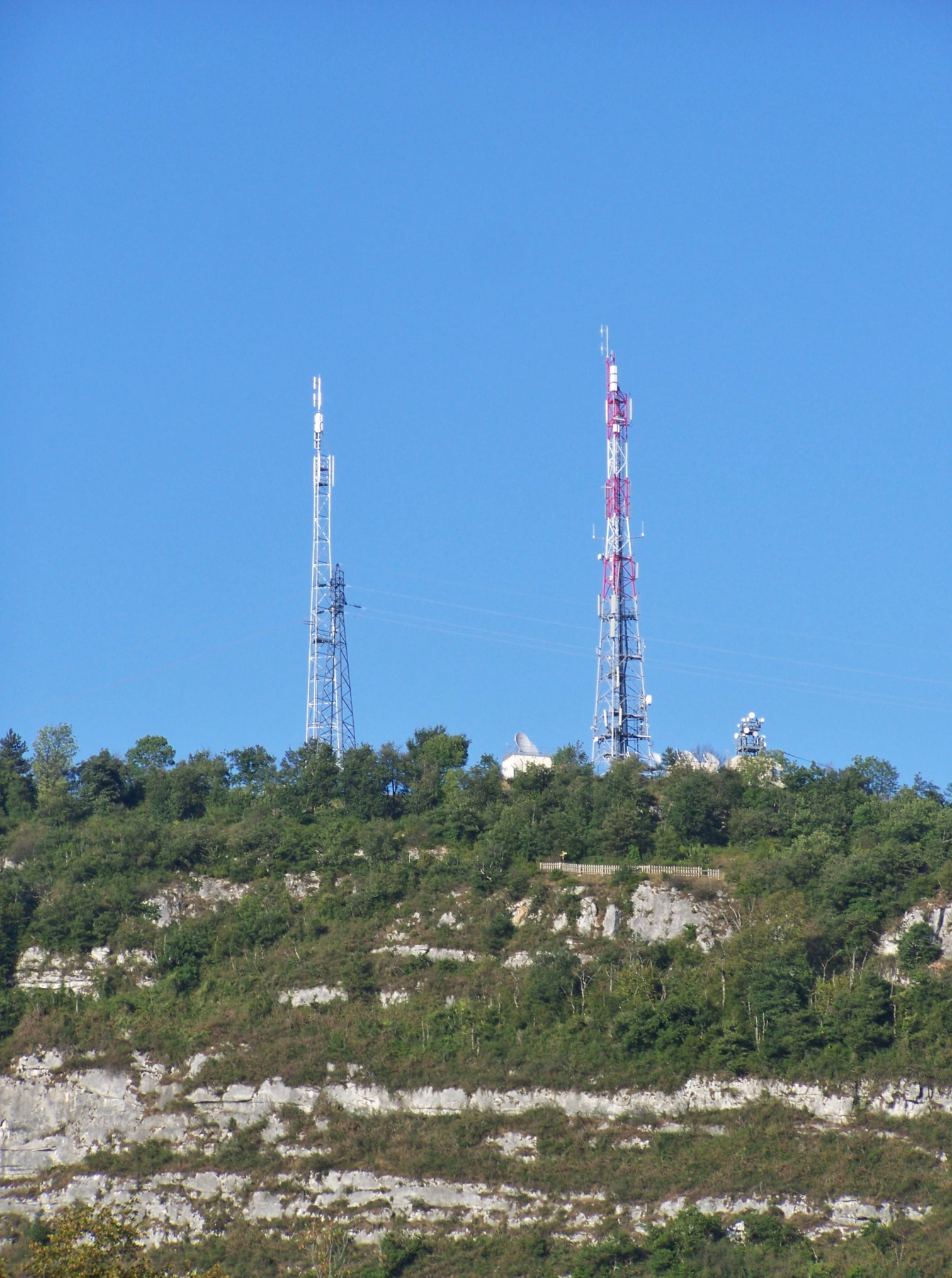 Television and radio antenna at the top of les Monts hill in Chambéry, Savoie, France.